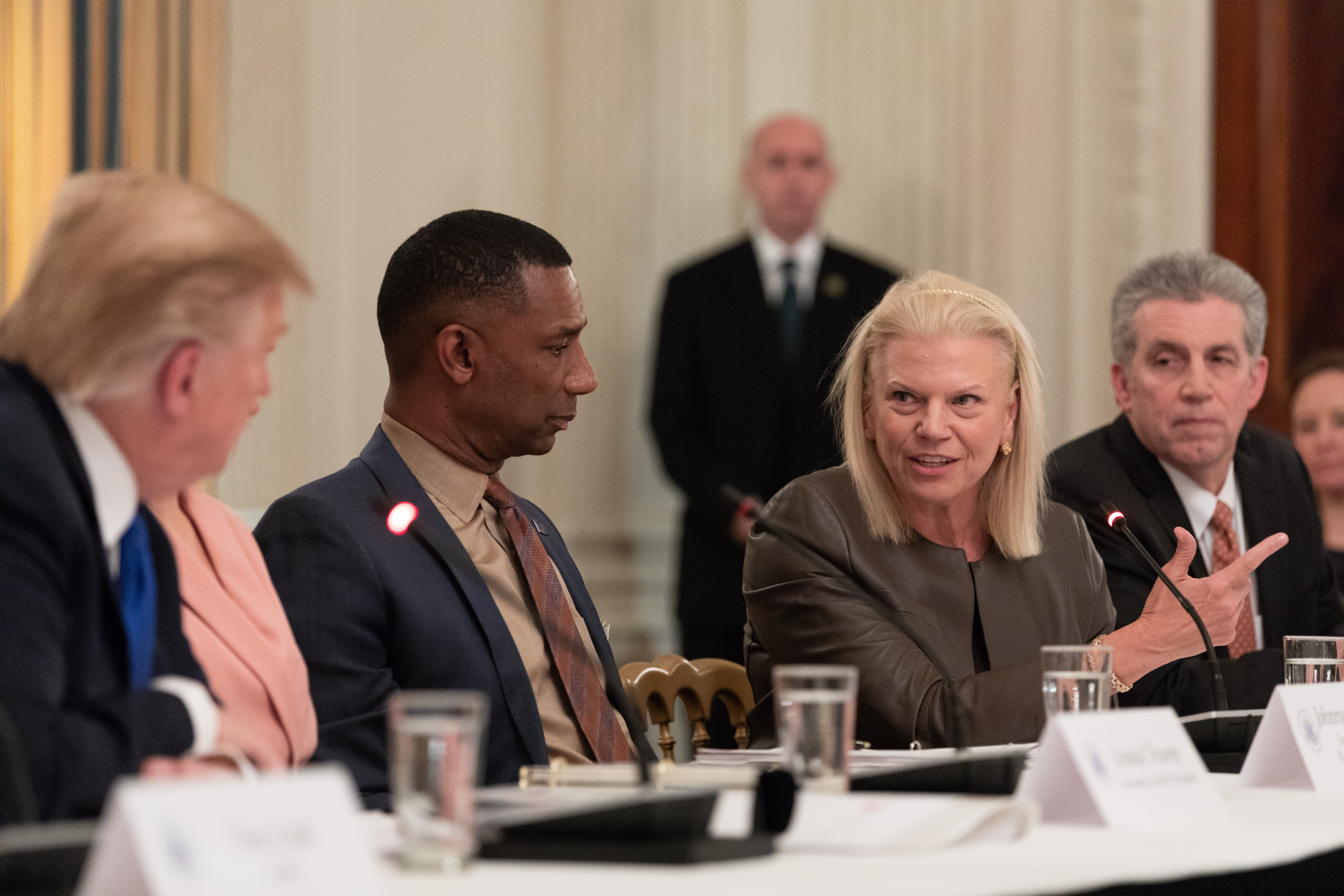 President Donald J. Trump listens as Ginni Rometty, CEO of IBM, addresses her remarks during the American Workforce Policy Advisory Board Meeting Wednesday, March 6, 2019, in the State Dining Room of the White House. (Official White House Photo by Joyce N. Boghosian)